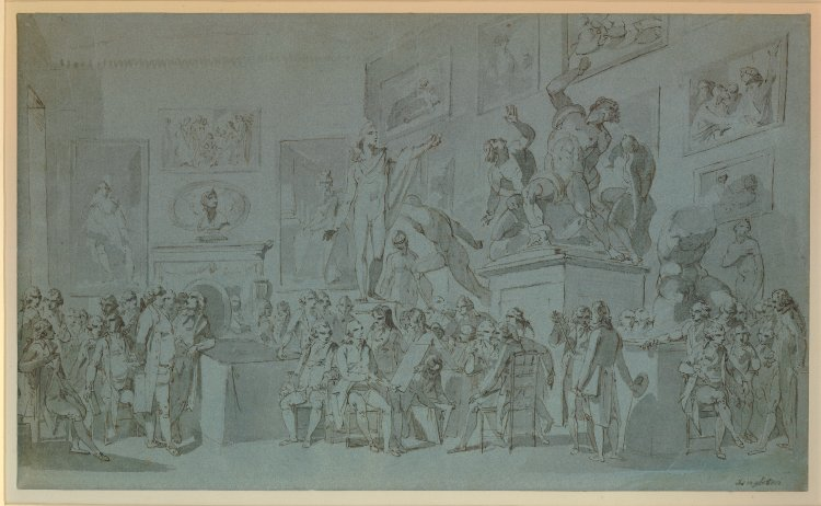 "The Royal Academicians assembled in their council chamber to adjudge the Medals to the successful students in Painting, Sculpture, Architecture and Drawing," pen and brown ink, with grey wash, on blue paper, by the British artist Henry Singleton. A study for the painting which hangs at Burlington House, London, the drawing differs in some respects from Singleton's painting finished in 1795. 330 mm x 550 mm. Courtesy of the British Museum, London.